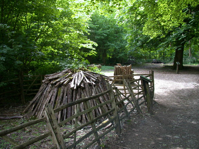 Charcoal Camp Showing how wood is stacked prior to the controlled partial combustion to make charcoal. An exhibit at the Weald & Download Open Air Museum